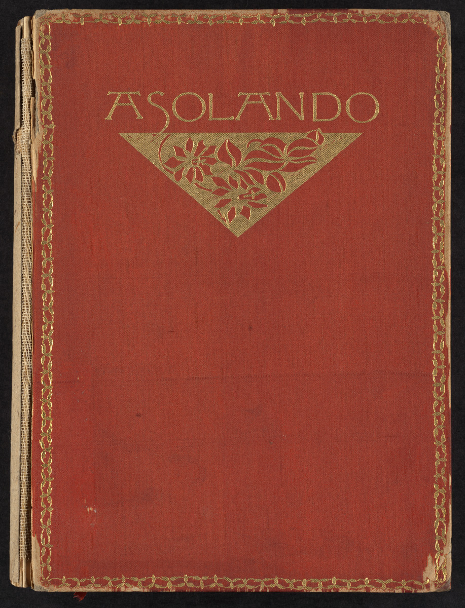 File name: 06_04_0000104Title: BROWNING(1892) AsolandoDate issued: 1892Genre: Book coversNotes: Browning, Robert, 1812-1889 (Author)Collection: Sarah Wyman Whitman BindingsLocation: Boston Public Library, Special CollectionsRights: No known copyright restrictions.